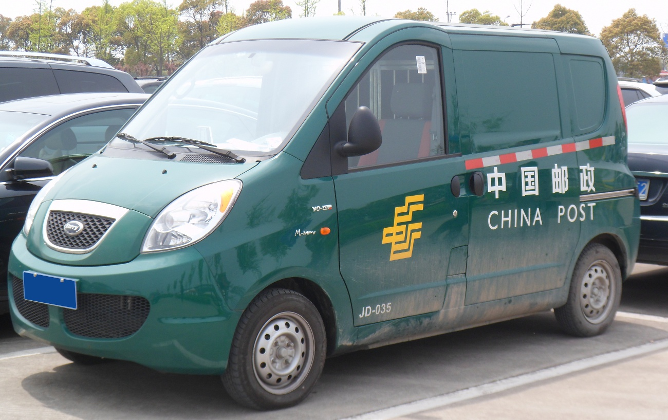 Karry S22 Van photographed in Anting, Shanghai municipality, China.